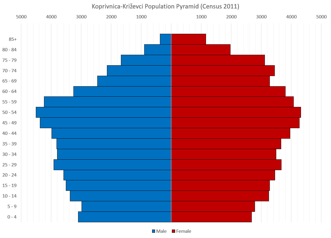 Population pyramid of Koprivnica-Križevci County. Version in English. Data from 2011 Census; available at